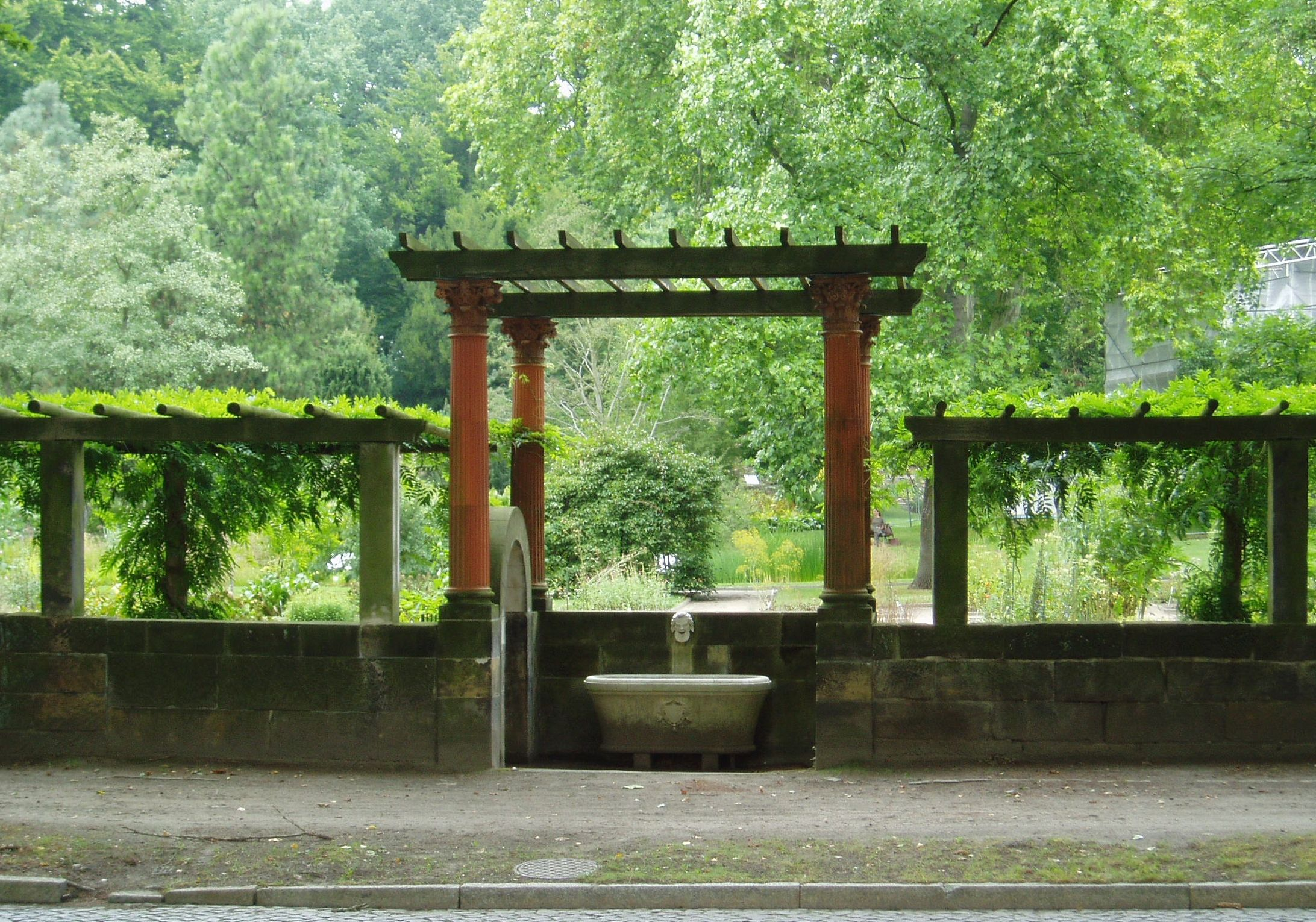 Botanical garden Potsdam, Germany, entrance to Paradiesgarten at Maulbeerallee